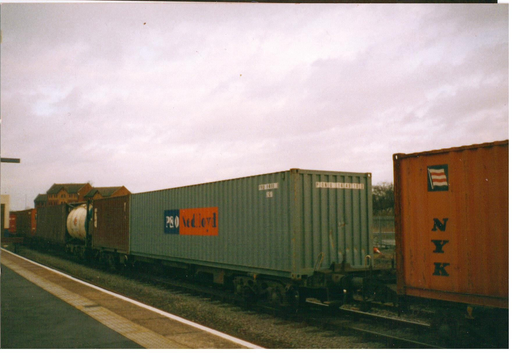 I took the picture of this P&O Nedlloyd intermodal freight freight flat car my self at Banbury station.